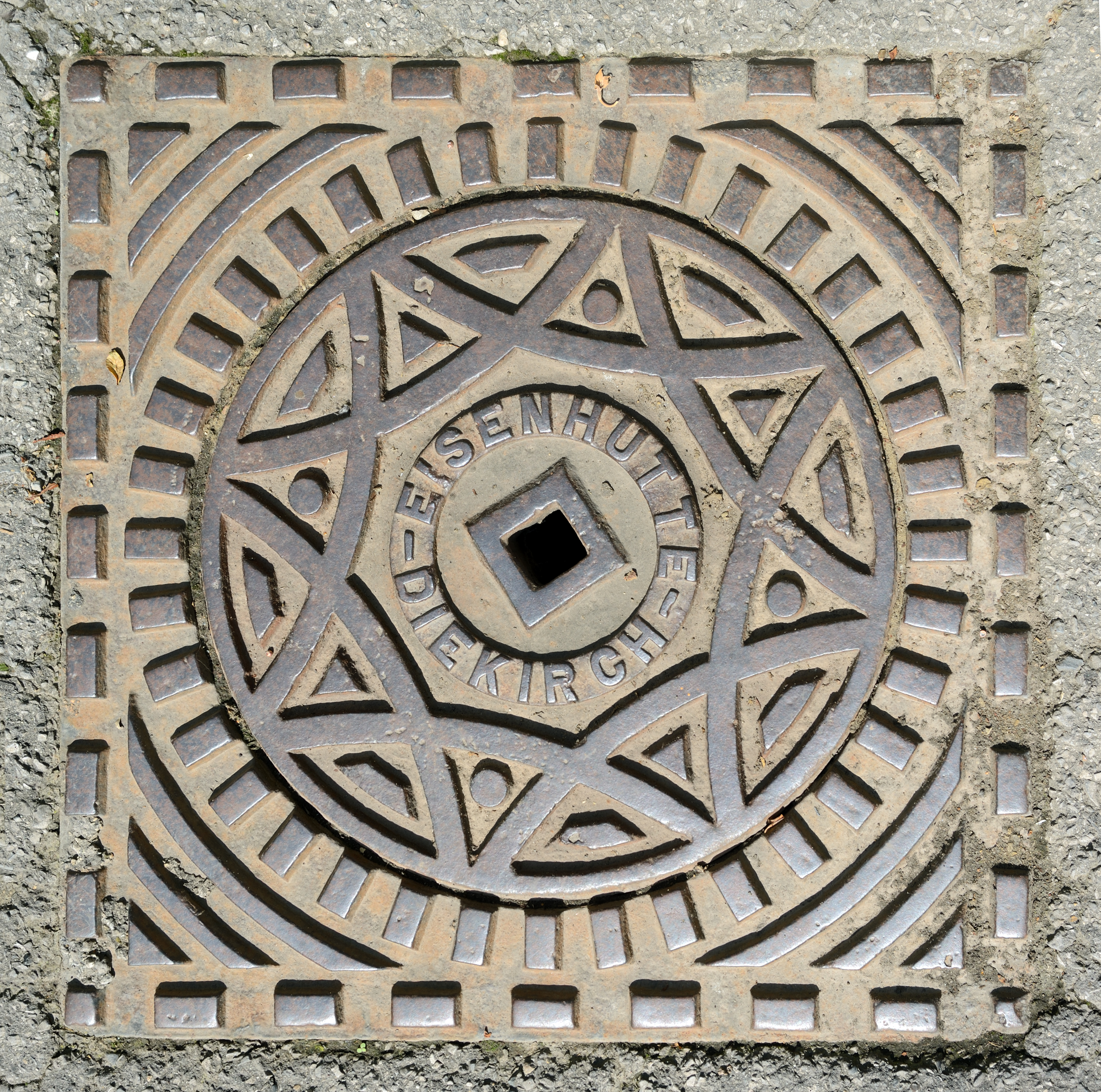 Luxembourg Diekirch: Manhole cover by Fonderie de Diekirch (1863 - ca. 1972) in the city centre.